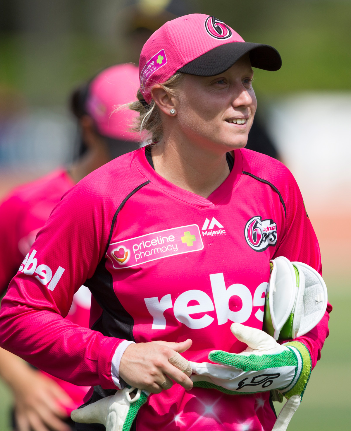 Alyssa Healy playing for the Sydney Sixers in WBBL